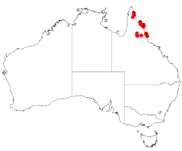 Acacia legnota Occurrence data from Australasia Virtual Herbarium downloaded from on 8 December 2018